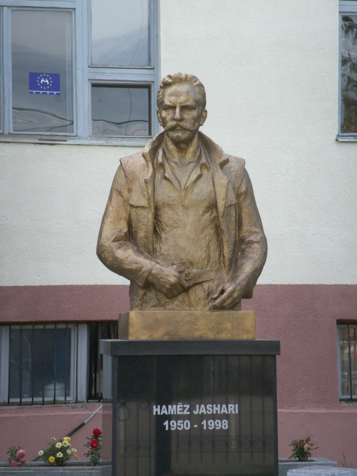 Hamëz Jashari monument in Skënderaj / Srbica